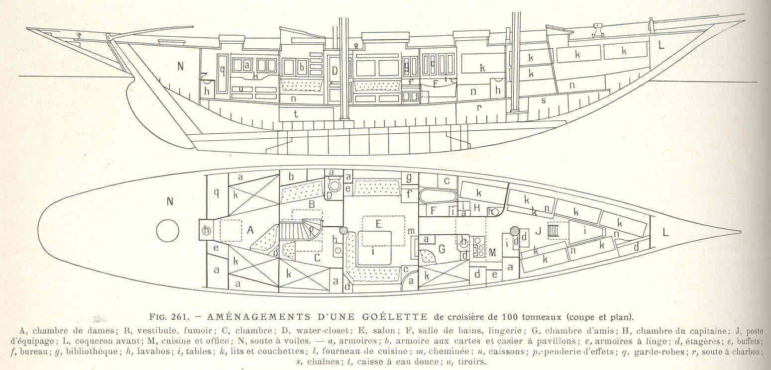 a, chambre de dames; b, vestibule, fumoir; c, chambre; d, water-closed; e, salon; f, salle de bains, lingerie; g, chambre d'amis; h, chambre du capitaine; j, poste d'equipage; l, coqueron avant; m, cuisine et office; n, soute a voiles. a, armoires; b, armoire aux cartes et casier a pavilons; c, armoires a linge; d, etageres; e, buffets; f, bureau; g, bibliotheque; h, lavabos; i, tables; k, lits et couchettes; l, fourneau de cuisine; m, cheminee; n. caissons; p, penderie d'effets; q, garde-robes; r, soute a charbon; s, chaines; t, caisse e eau douce; u, tiroirs Subject: Schooners--Designs and plans, Sailboats--Designs and plans Tag: Vessels